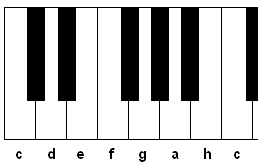 C major scale